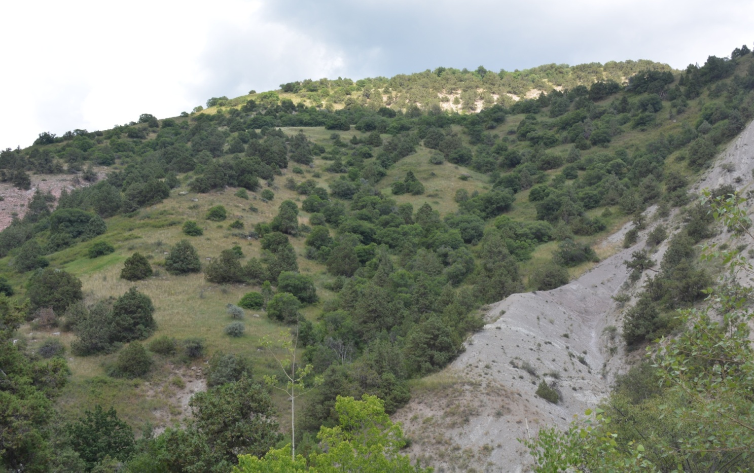 Խոսրովի անտառ